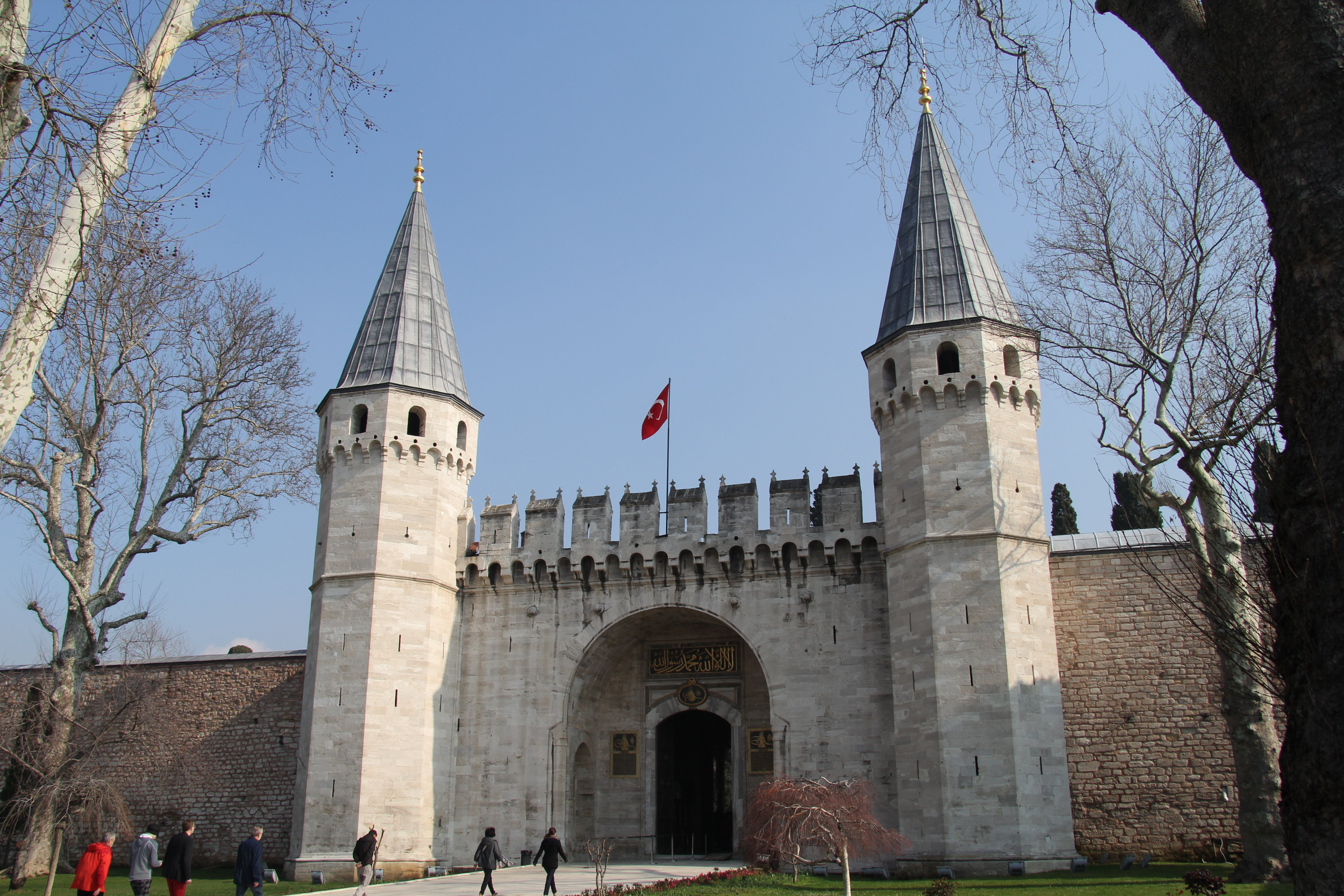 Topkapı Palace in Istanbul, Turkey, Middle Gate connecting the first and the second courtyard